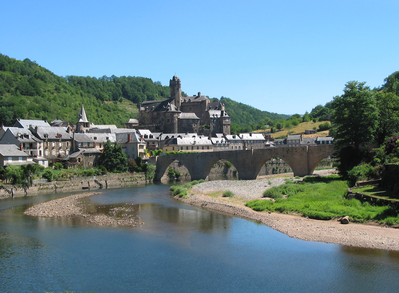 Estaing, Aveyron (France), the small market town, the medieval castle (XV/XVIIth centuries) and the Gothic bridge spanning the Lot River.